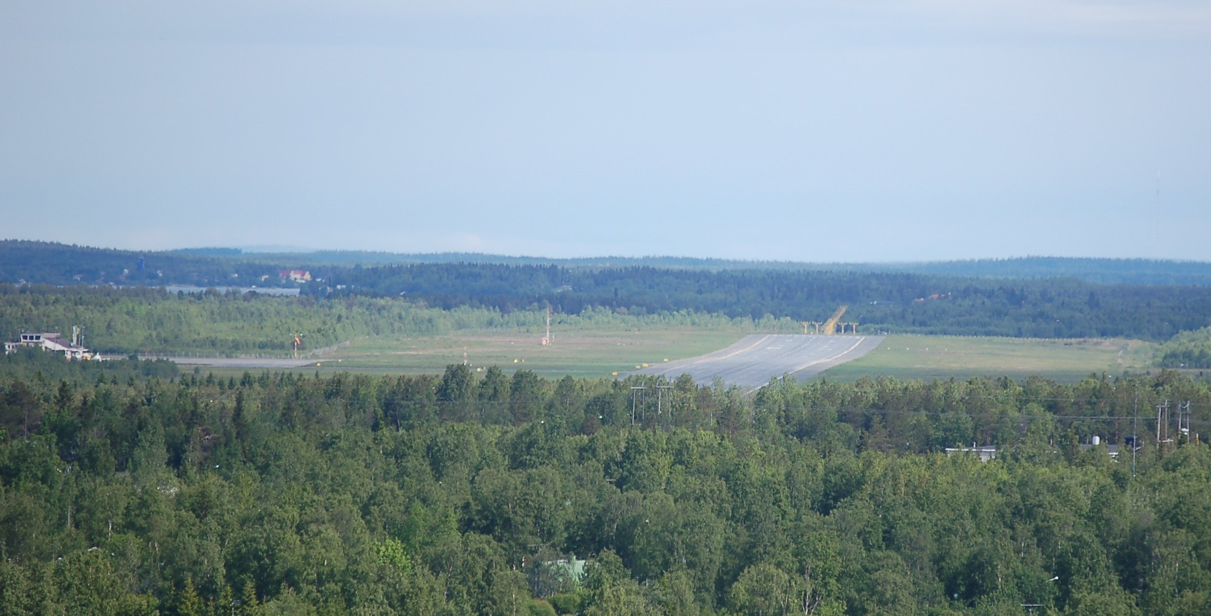 Runway 18/36 of Kemi-Tornio Airport, in Kemi, Finland, as seen from the roof of Kemi City Hall.